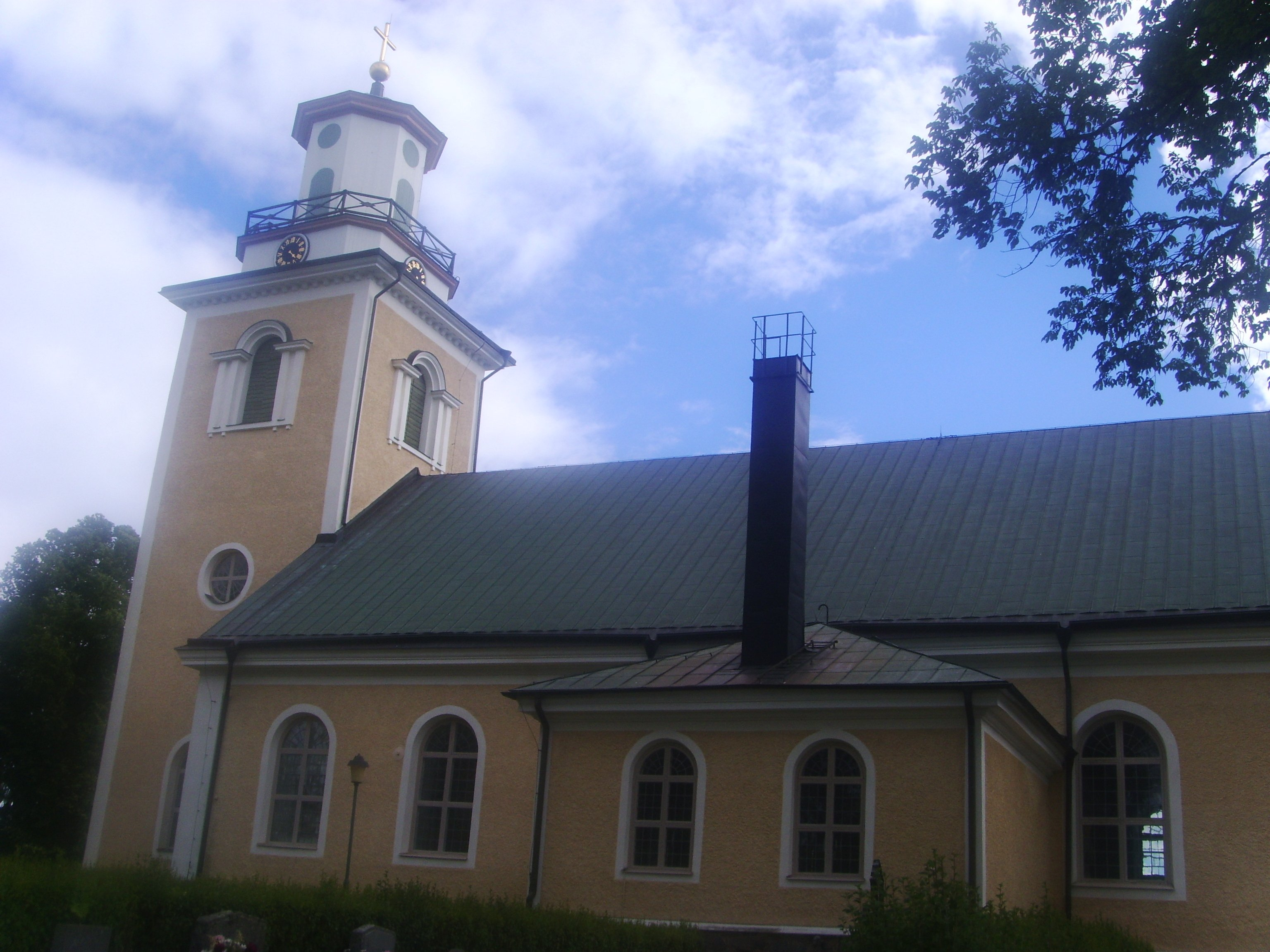 The church in Mörlunda.